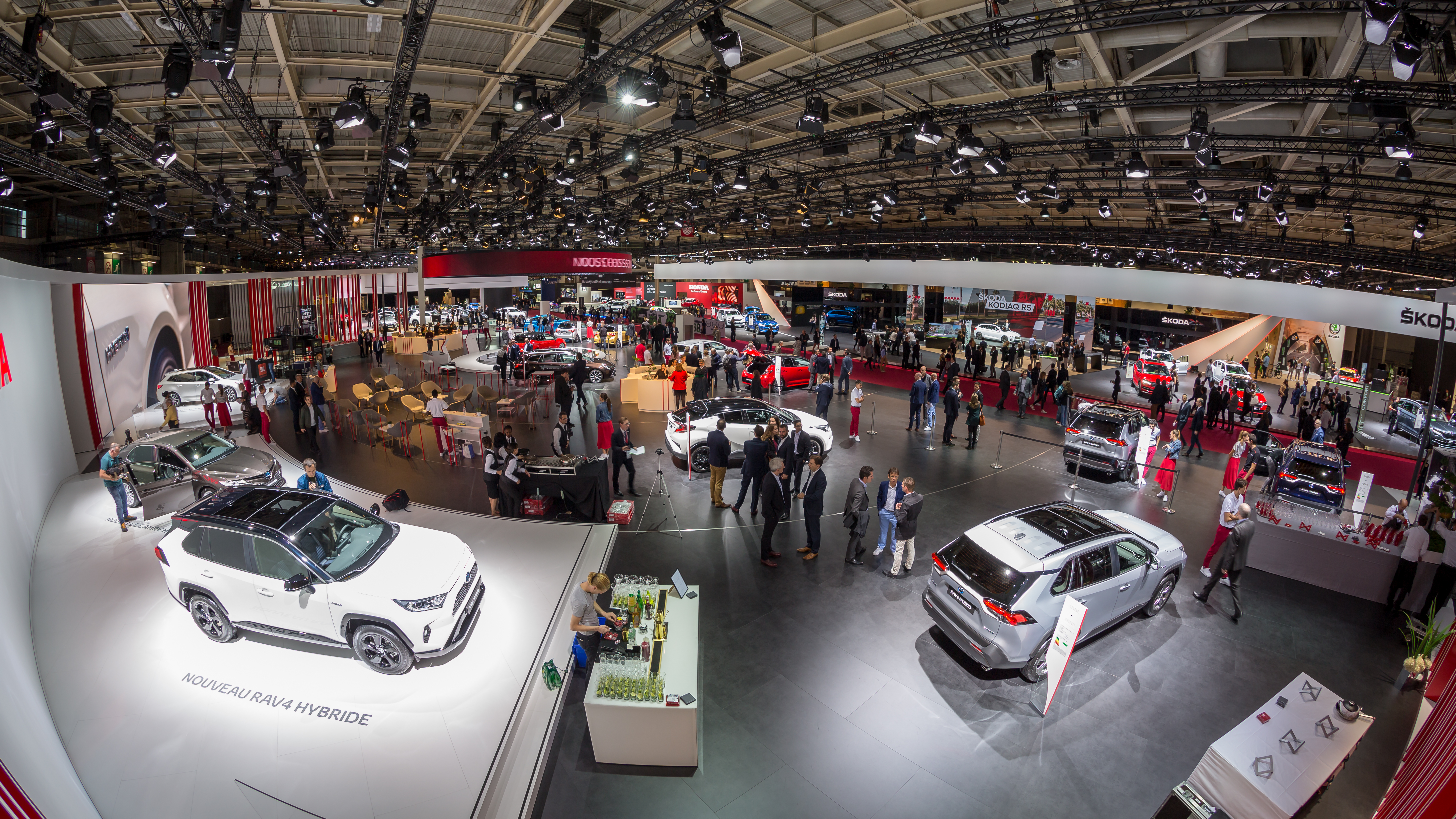 Toyota, Mondial Paris Motor Show 2018